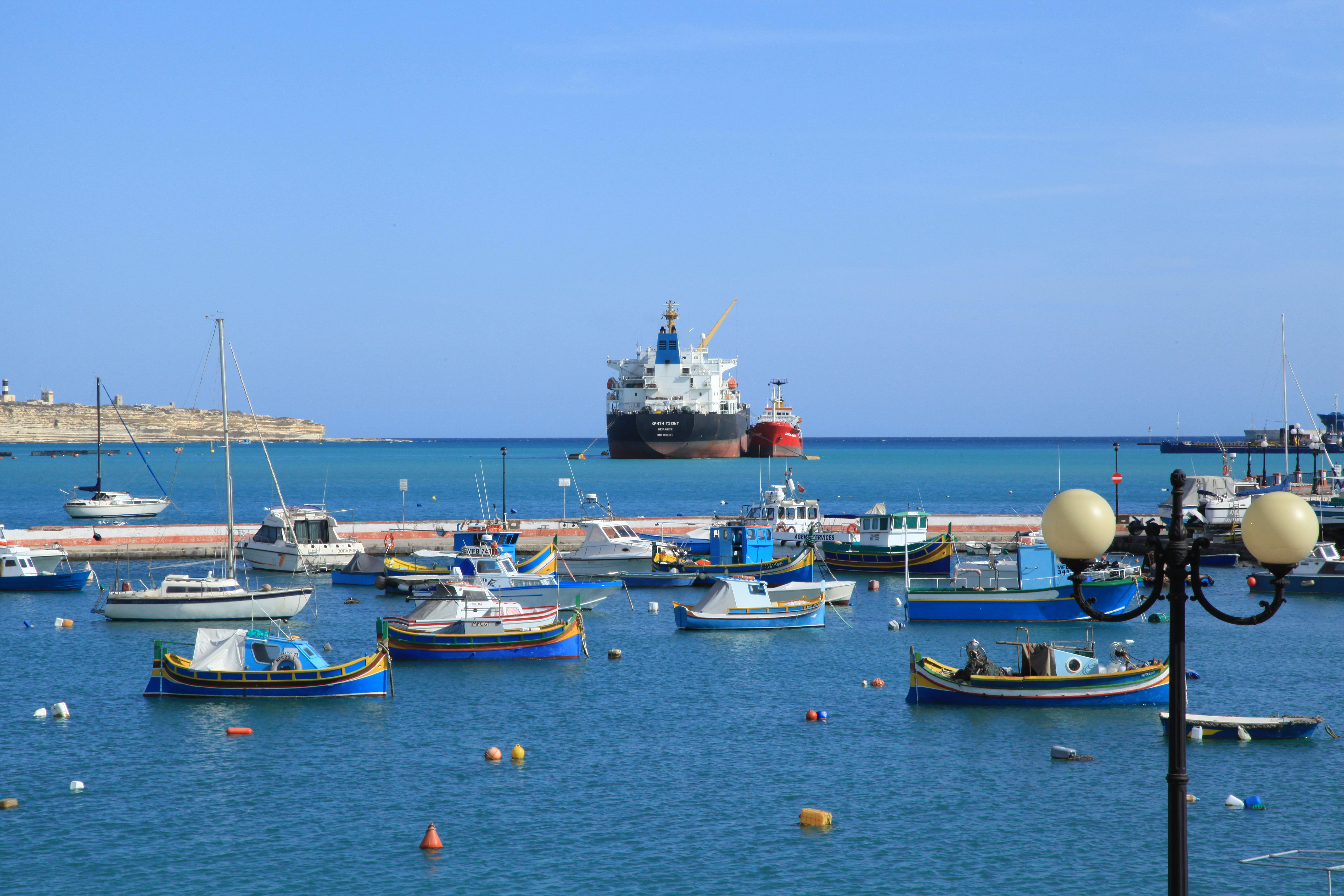 View from Kappella ta' San Ġorġ Martri down to the harbour in Birżebbuġa